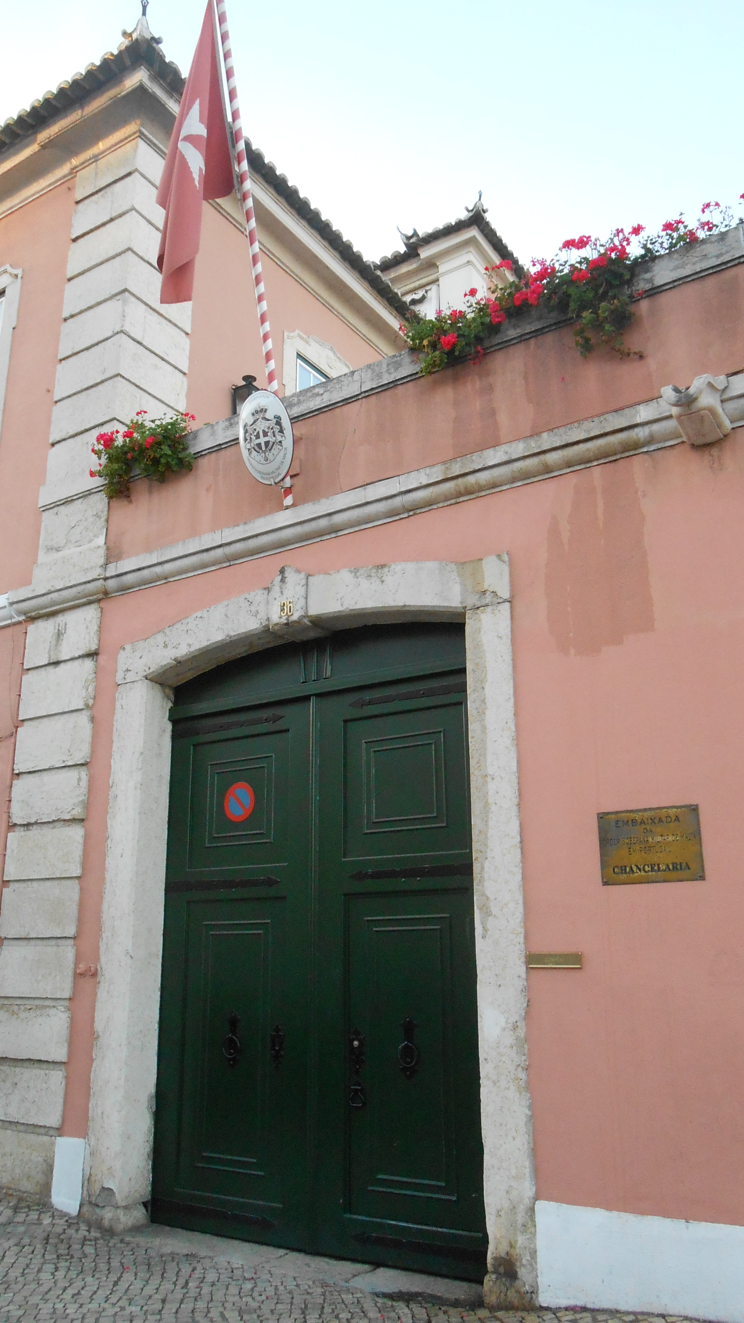 The embassy of the Sovereign Military Order of Malta in the Avenida da Índia in Lisbon.